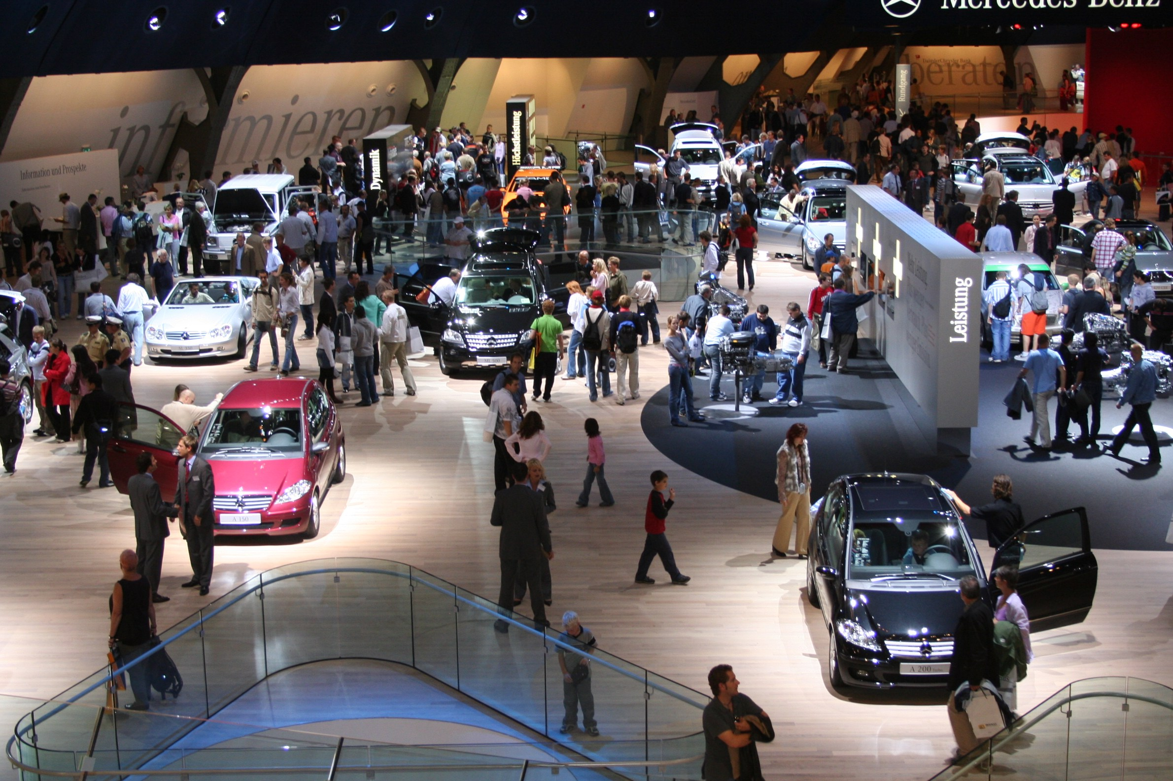 Mercedes hall on IAA 2005 Photo taken by Ygrek, 17th September 2005.